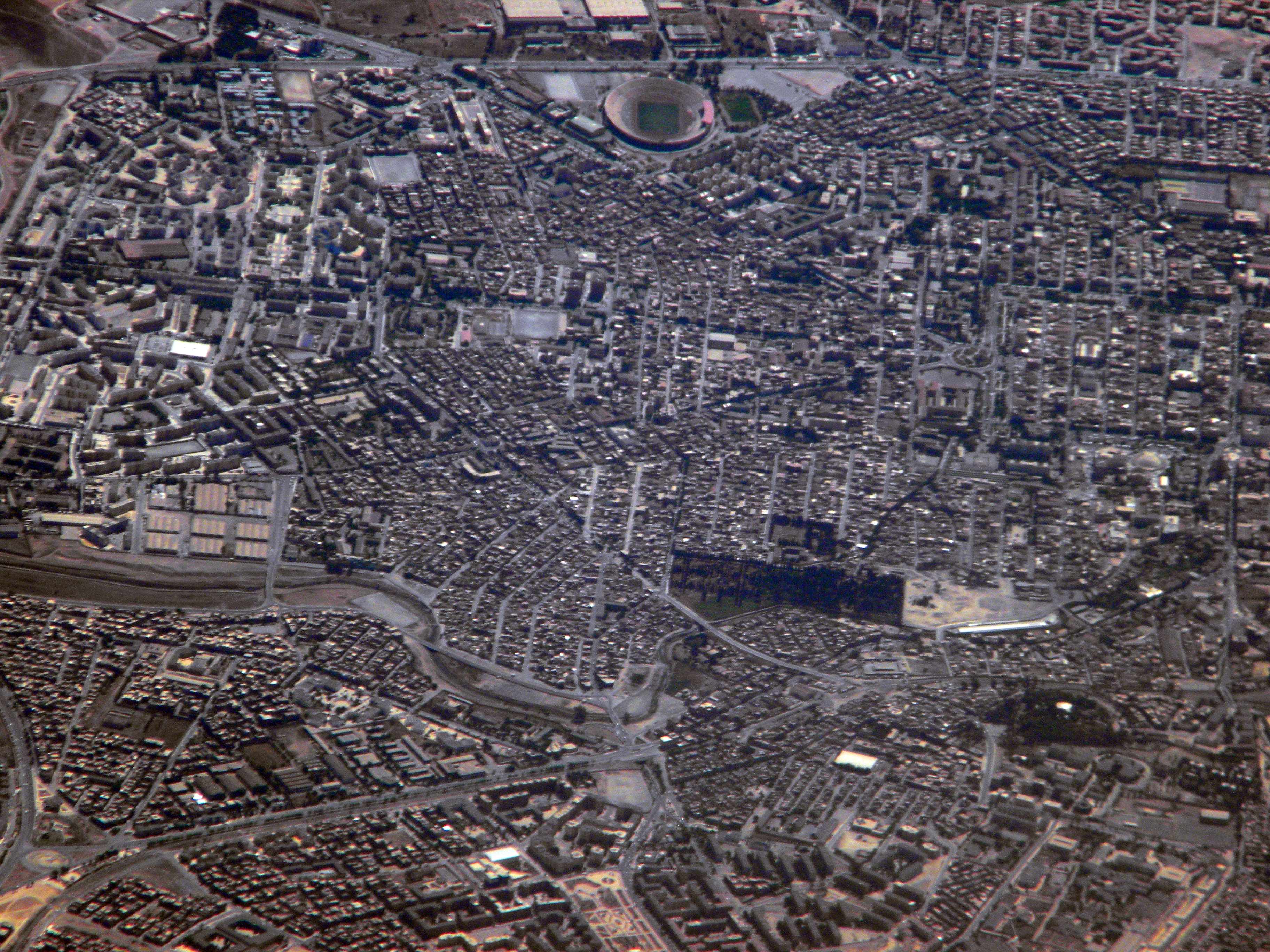 Aerial View of Sidi Bel Abbès City